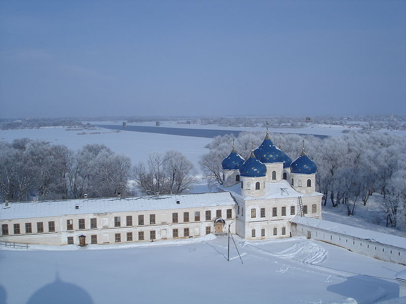 The Cathedral of Feast of the Cross and northern wall of Yuriev Monastery. Veliky Novgorod, Russia